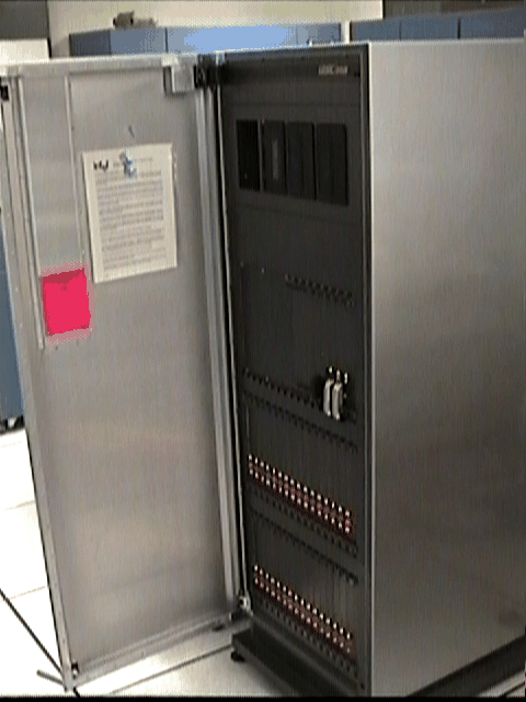 Intel iPSC/860 parallel computer shown with front door open, revealing 32 compute nodes and associated service and I/O boards. Each node contains an Intel i860 CPU and 8MB RAM.